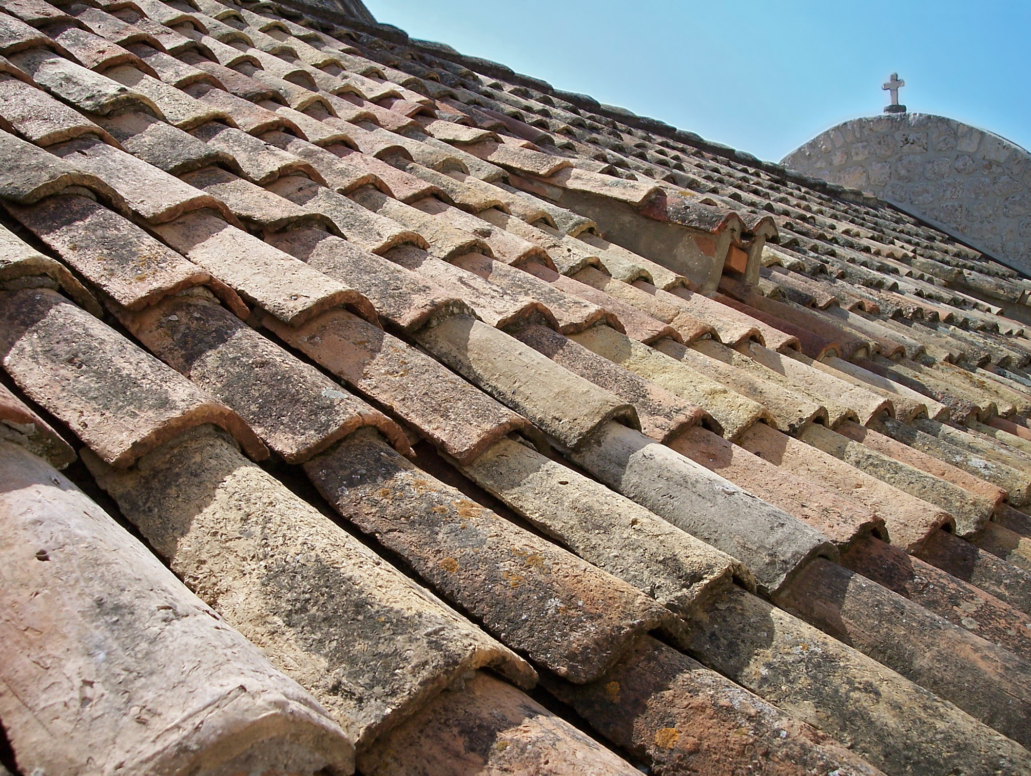 Tiled roof in old town of Dubrovnik (Croatia). Croatia is a country at the crossroads of the Mediterranean Sea, Central Europe, and the Balkans.